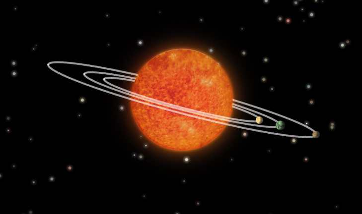 This image is cropped from this NASA image